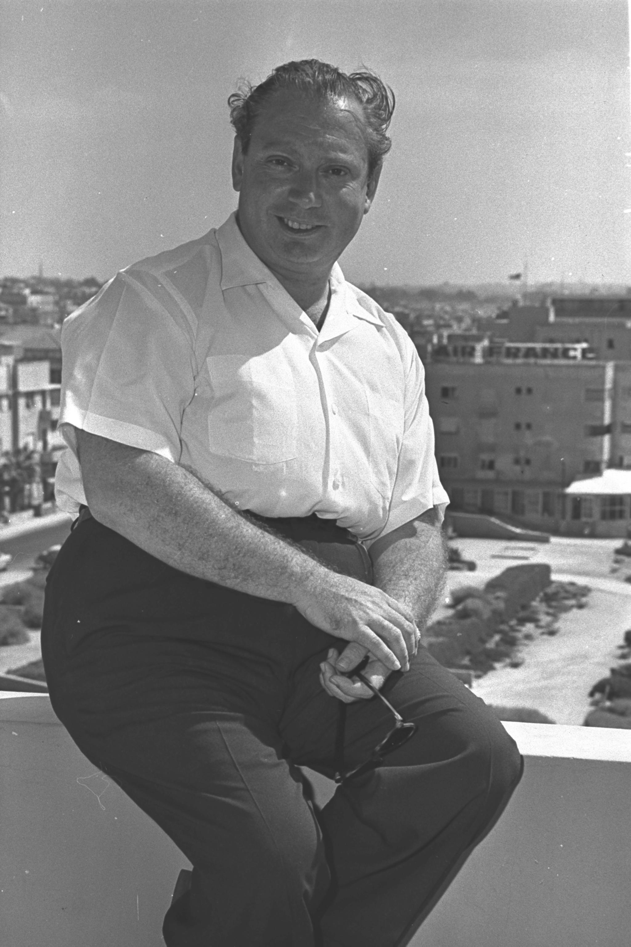 Violinist Isaac Stern during a visit to Israel, 1961